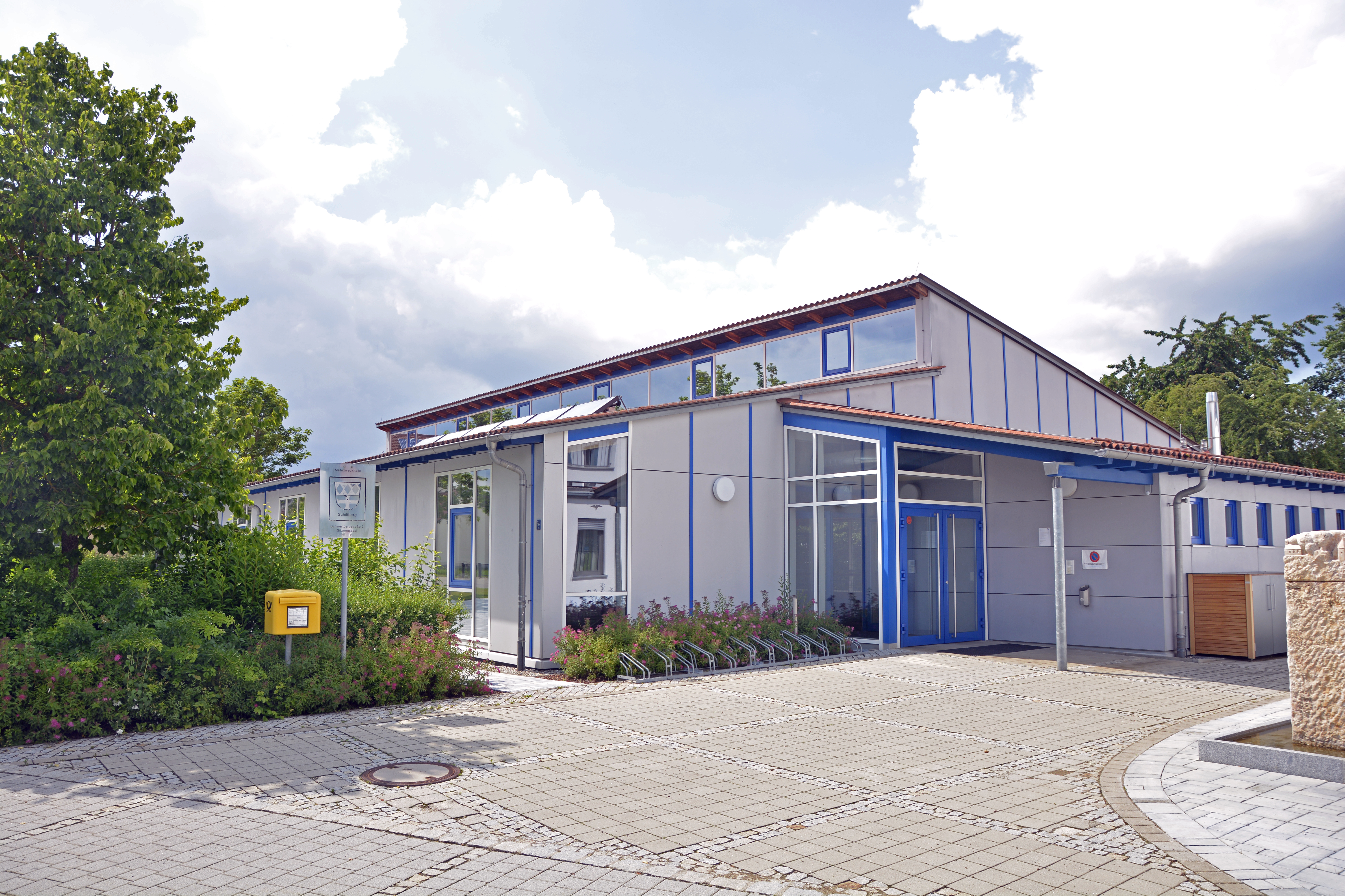 Schiltberg - multi-purpose hall